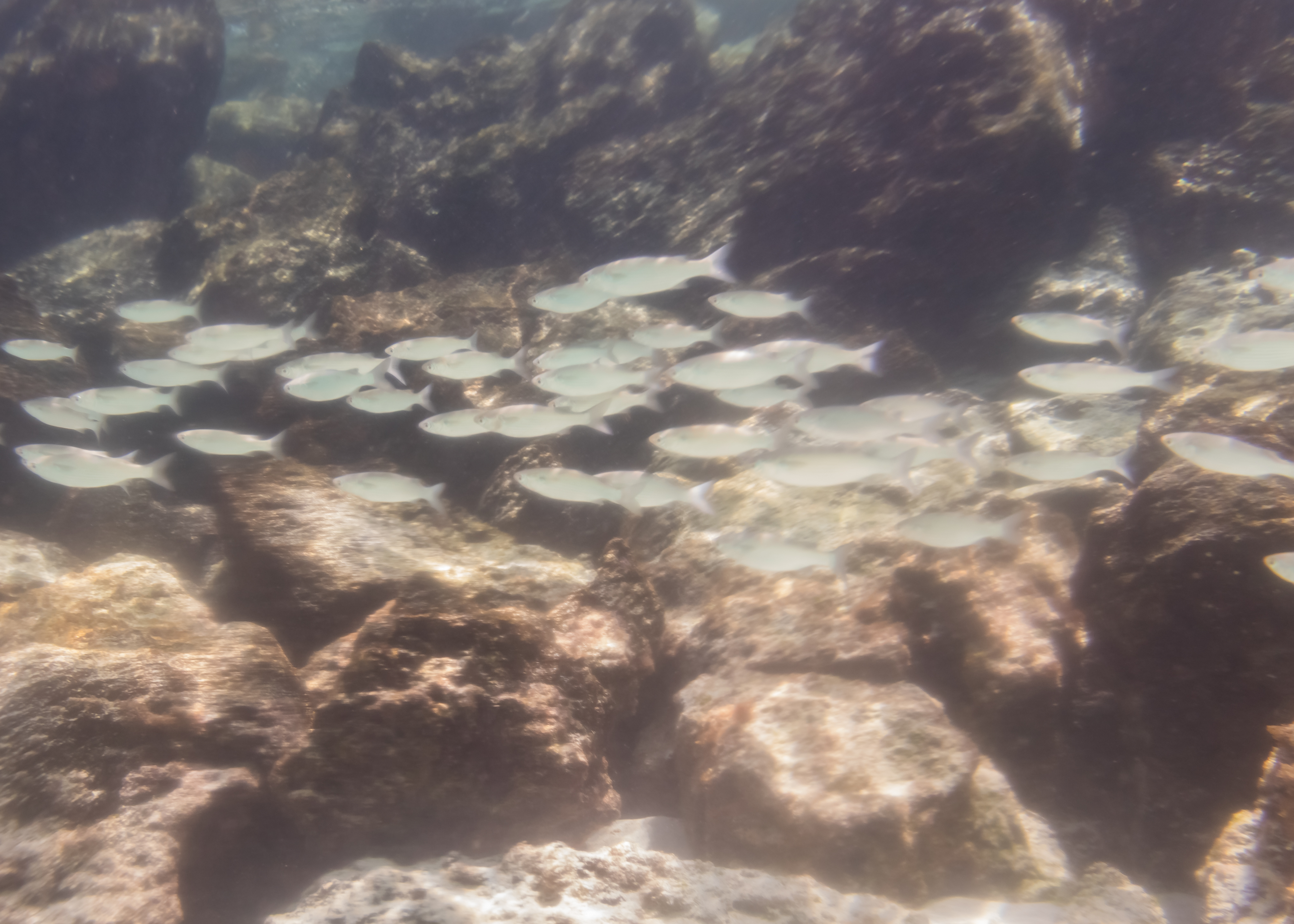 Milkfish (Chanos chanos), San Cristobal Island, Galapagos Islands, Ecuador